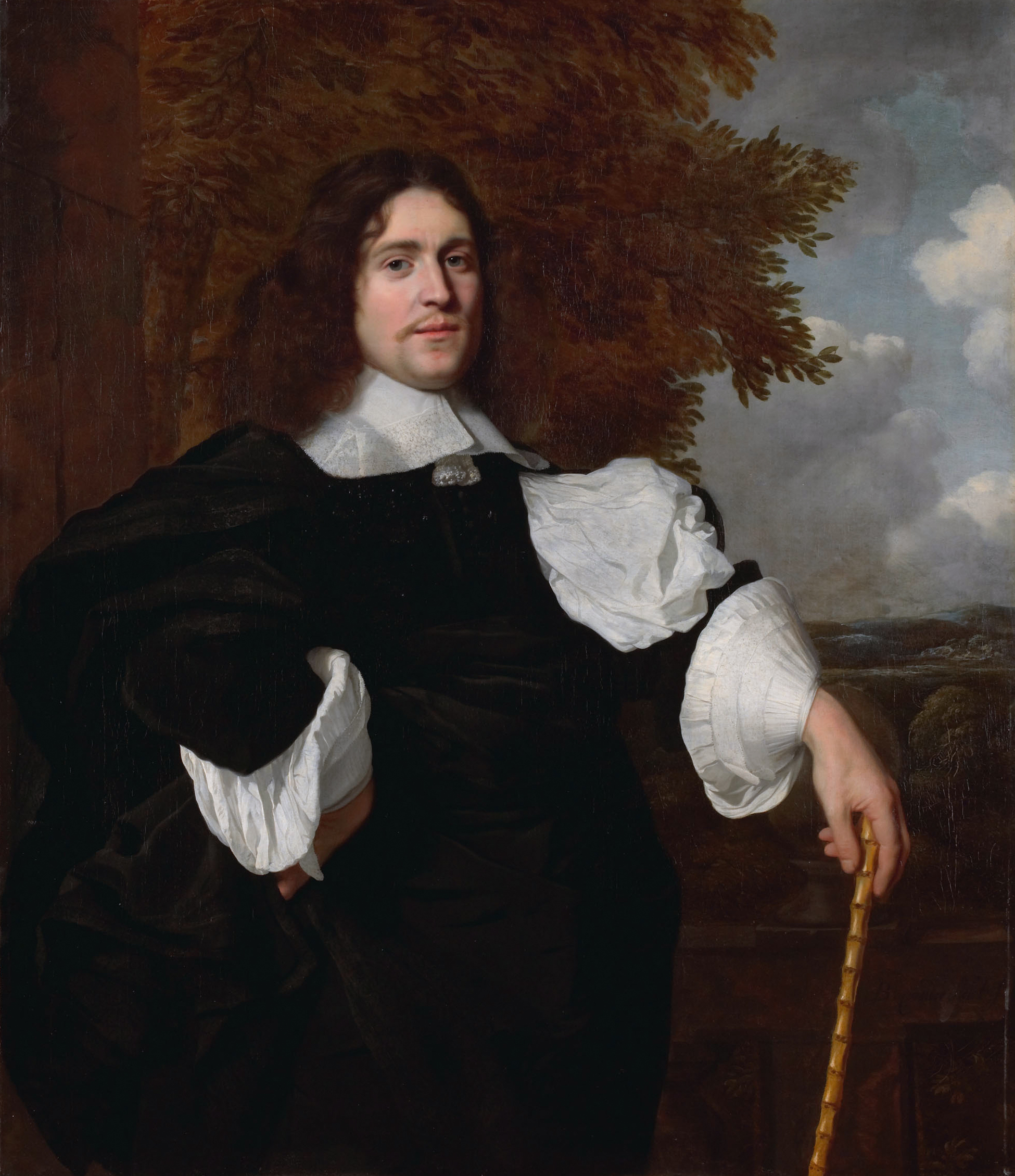 Jacob Trip (1627-1670) oil on canvas 110 x 95 cm signed b.r.: B. vander. helst.f 1650 - 1660